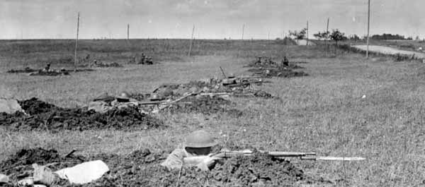 Soldiers of the 167th Infantry Regiment man positions near St. Benoit, on the Meuse River (France), during the St. Mihiel offensive. 167th Infantry, Alabama, 4th Alabama Infantry, WWI